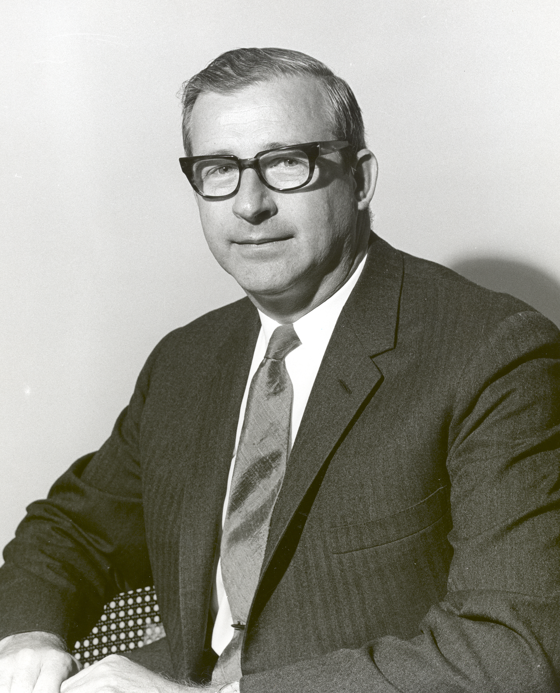 Dr. Thomas O. Paine served as Deputy Administrator from January 31, 1968 to October 8, 1968, then as Acting Administrator from October 8, 1968, to March 21, 1969. He assumed the position of NASA Administrator on March 221, 1969 and served in that capacity until September 15, 1970. Prior to his time at NASA, Dr. Paine worked for General Electric conducting research on magnetic and composite materials. After serving as NASA Administrator, he returned to General Electric. In 1985 the White House chose him as chair of a National Commission on Space. Dr. Paine died in May 1992.